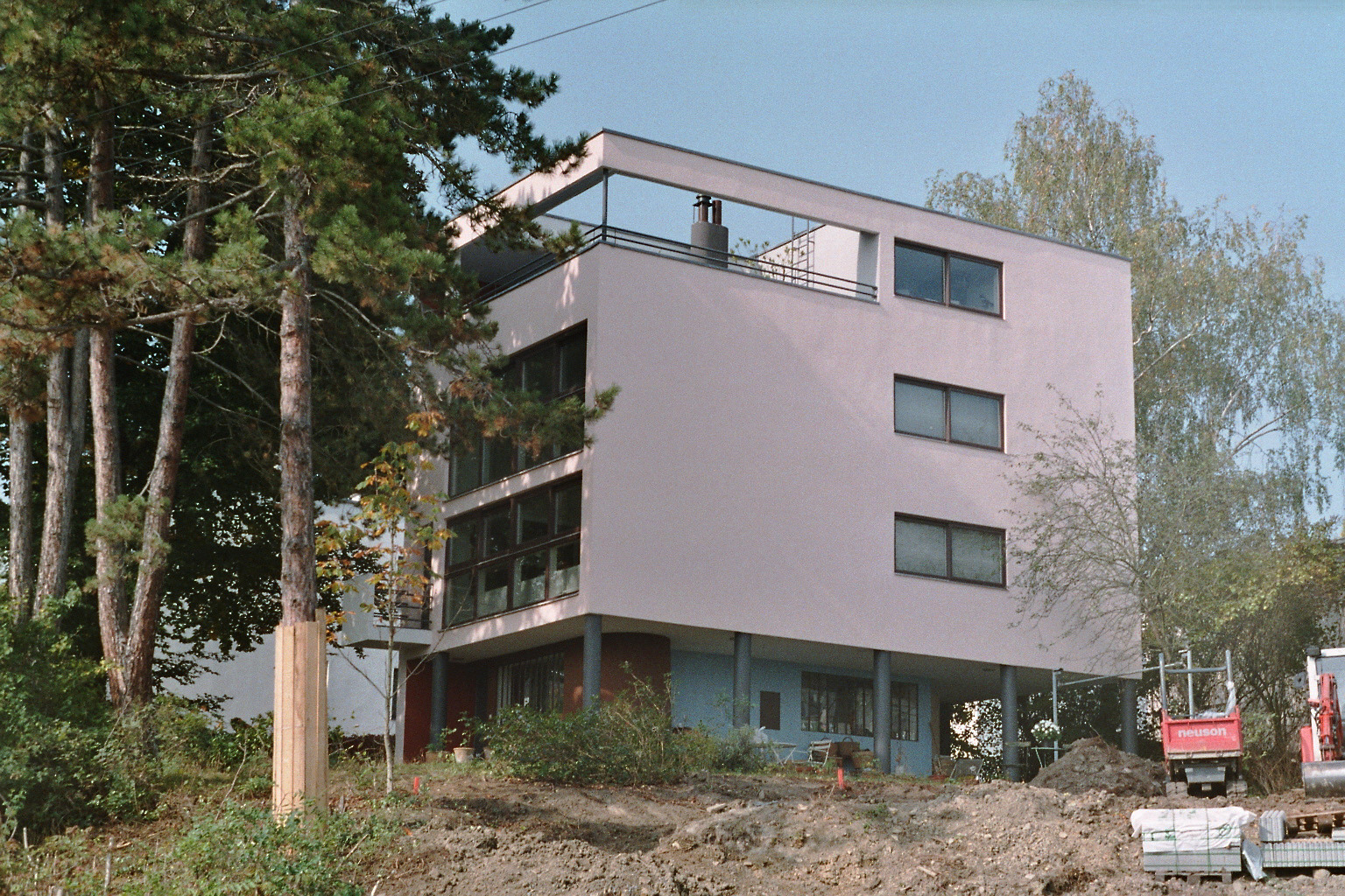 Stuttgart, Weissenhofsiedlung, House Citrohan by Le Corbusier. 1927, international style.